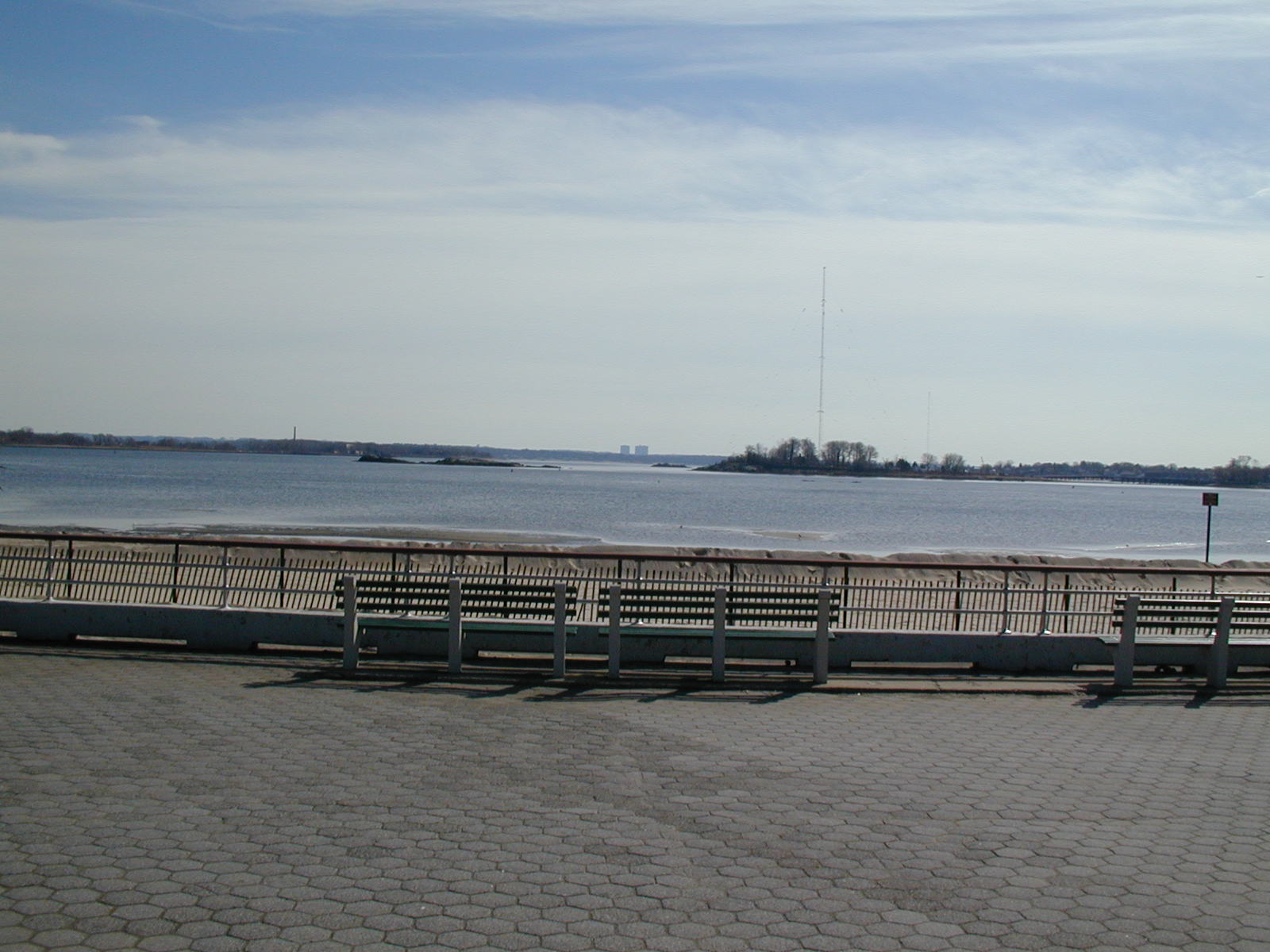 Pelham Bay Park, The Bronx, New York City More Bogdan Migulski Photography.